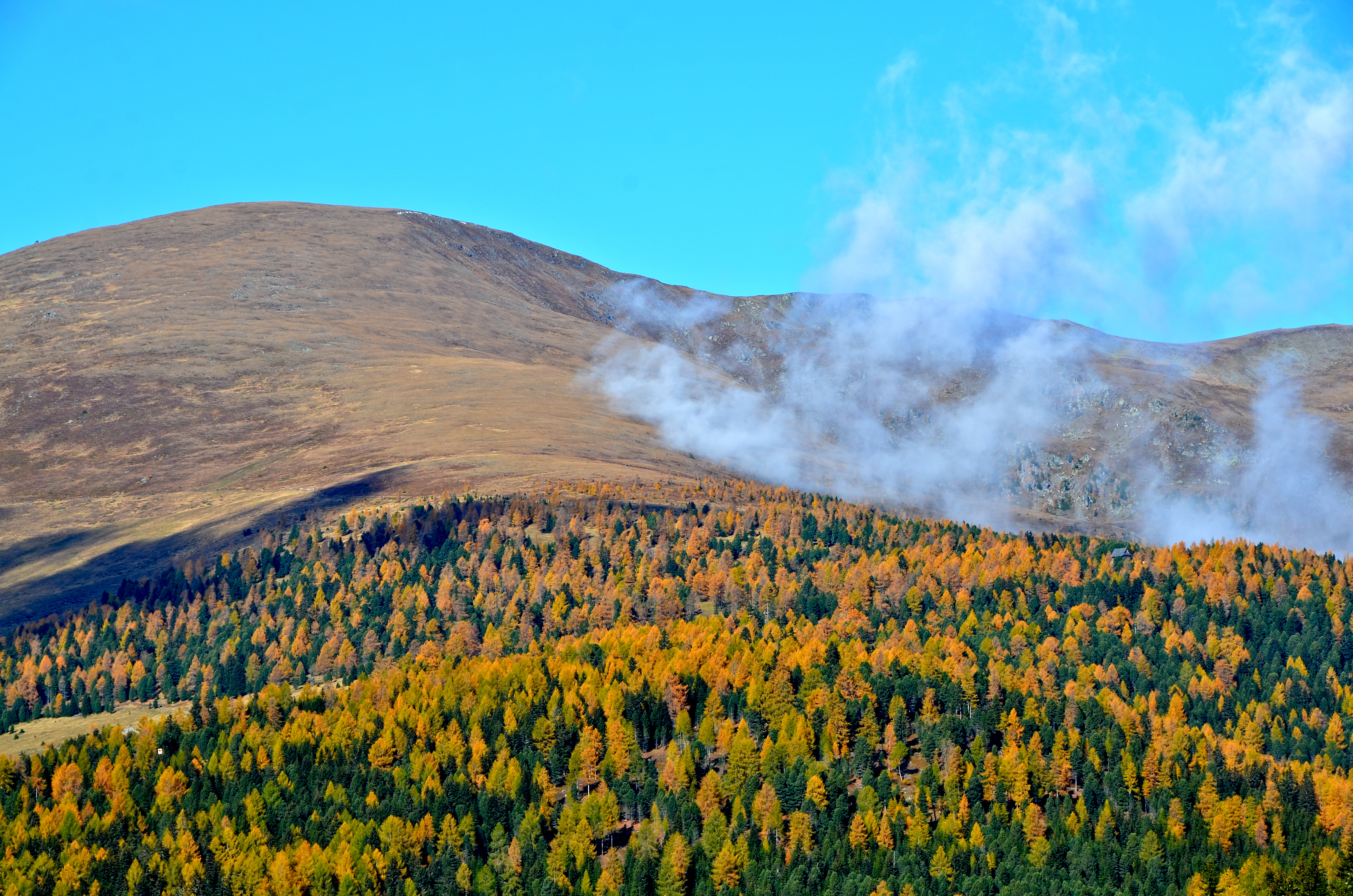 Grosser Speikkofel (2270 m) is a mountain south of the mountain Bretthoehe, part of the Nockberge at Seebachern, municipality Albeck (Carinthia), district Feldkirchen, Carinthia / Austria / EU